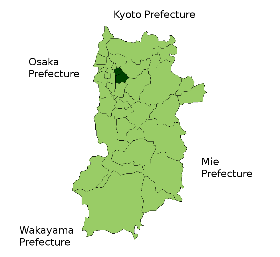 Location Map of Shiki District in Nara Prefecture, Japan